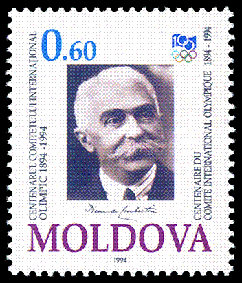 Stamp of Moldova